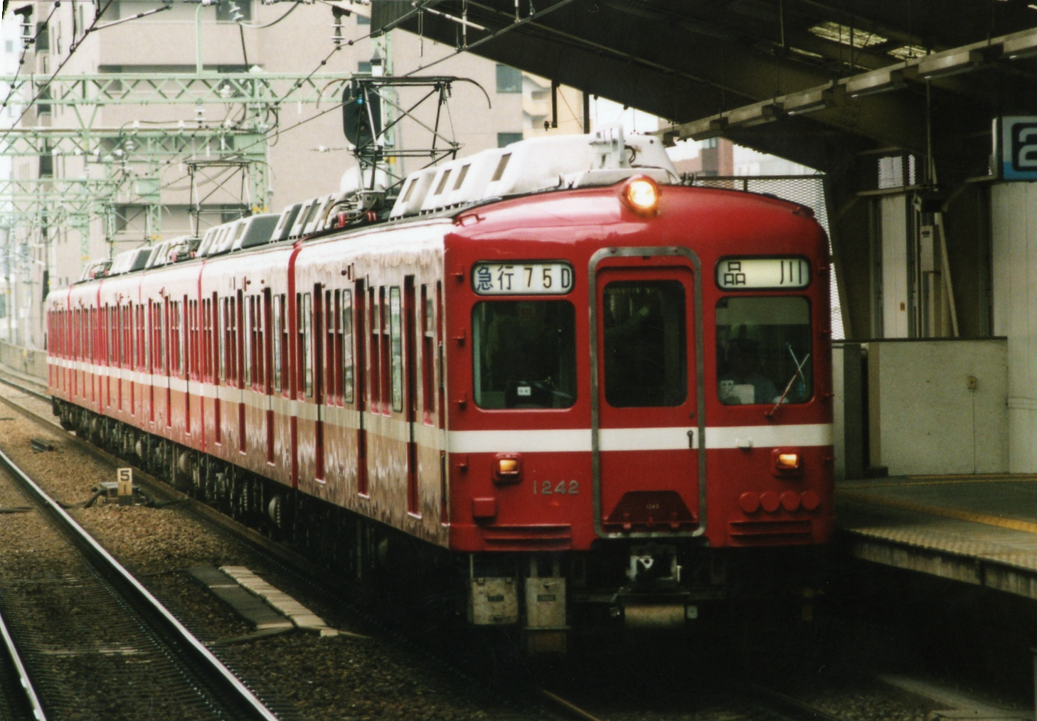 Keikyu No. 1237 at Shimbamba Station